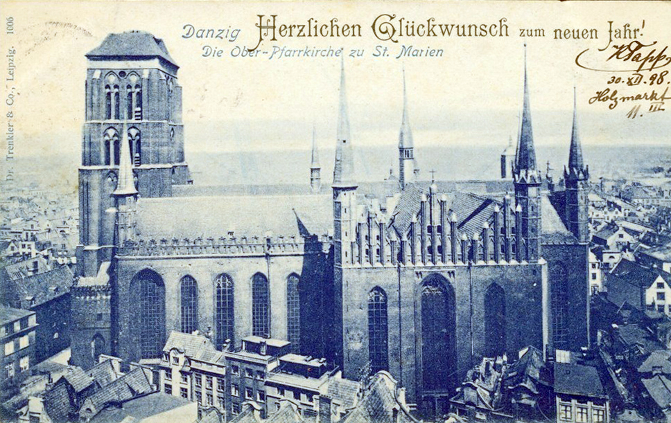 Gdańsk - St. Mary's Church 1898.